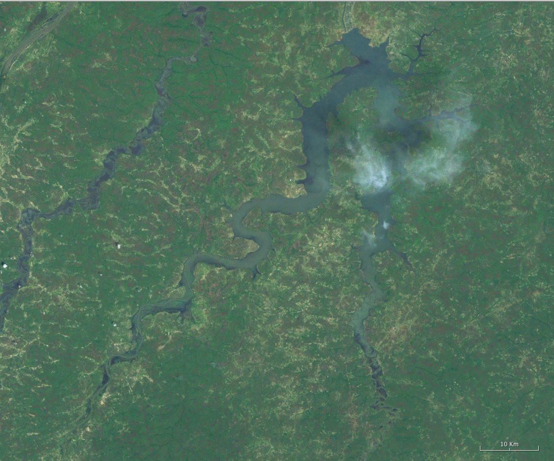 Lake Selingue, South Western Mali. West of lake Guinea begins. Niger river at top